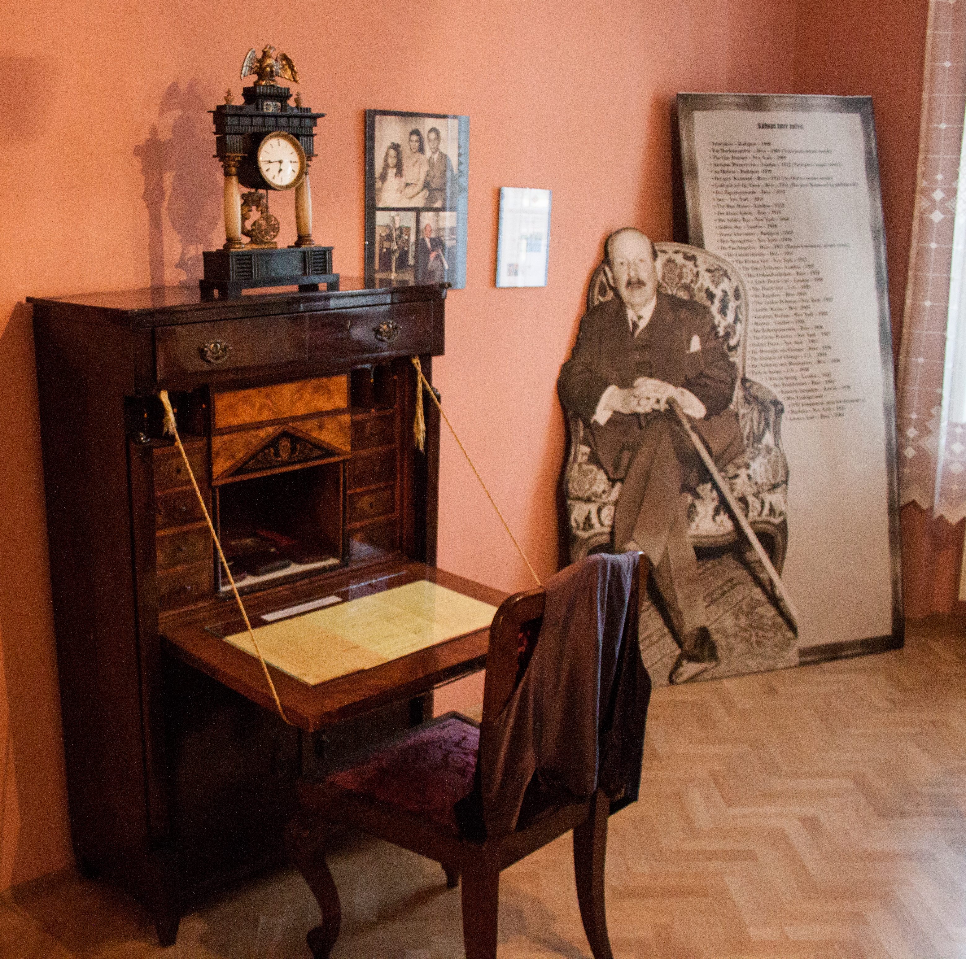 Interior, writing desk of the composerlabel QS:Len,"Interior, writing desk of the composer"label QS:Lhu,"Enteriőr a zeneszerző íróasztalával"